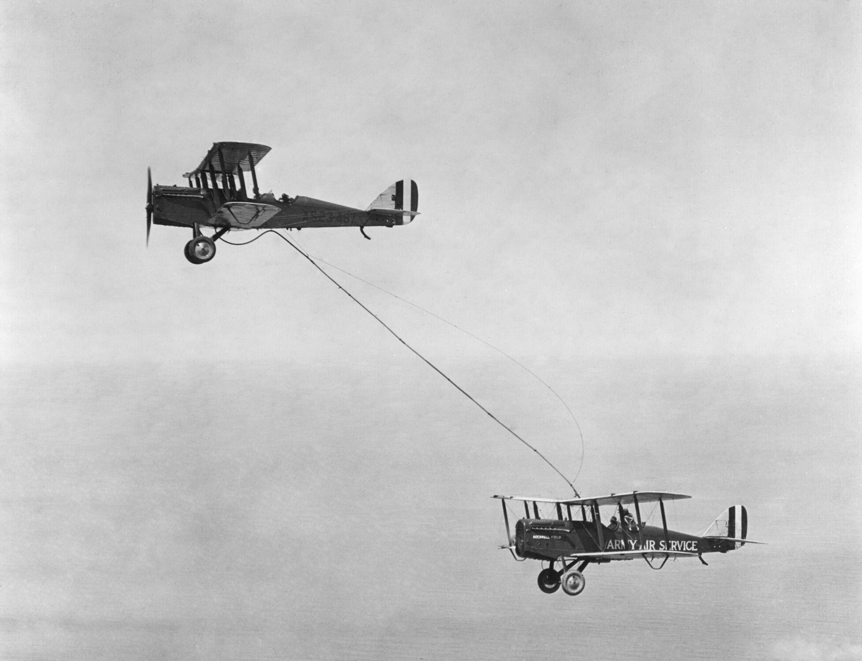 Capt. Lowell H. Smith and Lt. John P. Richter performing the first aerial refueling on 27 June 1923. The DH-4B biplane remained aloft over the skies of Rockwell Field in San Diego, California, for 37 hours. The airfield's logo is visible on the aircraft.